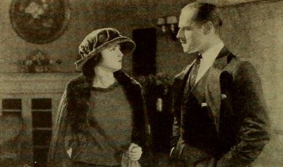 Still from the American film Bought and Paid For (1922) with Agnes Ayres and Jack Holt, on page 62 of the June 1922 Photoplay Magazine.